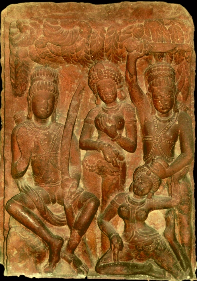 Ramayana Scene,Gupta Art,Indian National Museum,New Delhi.